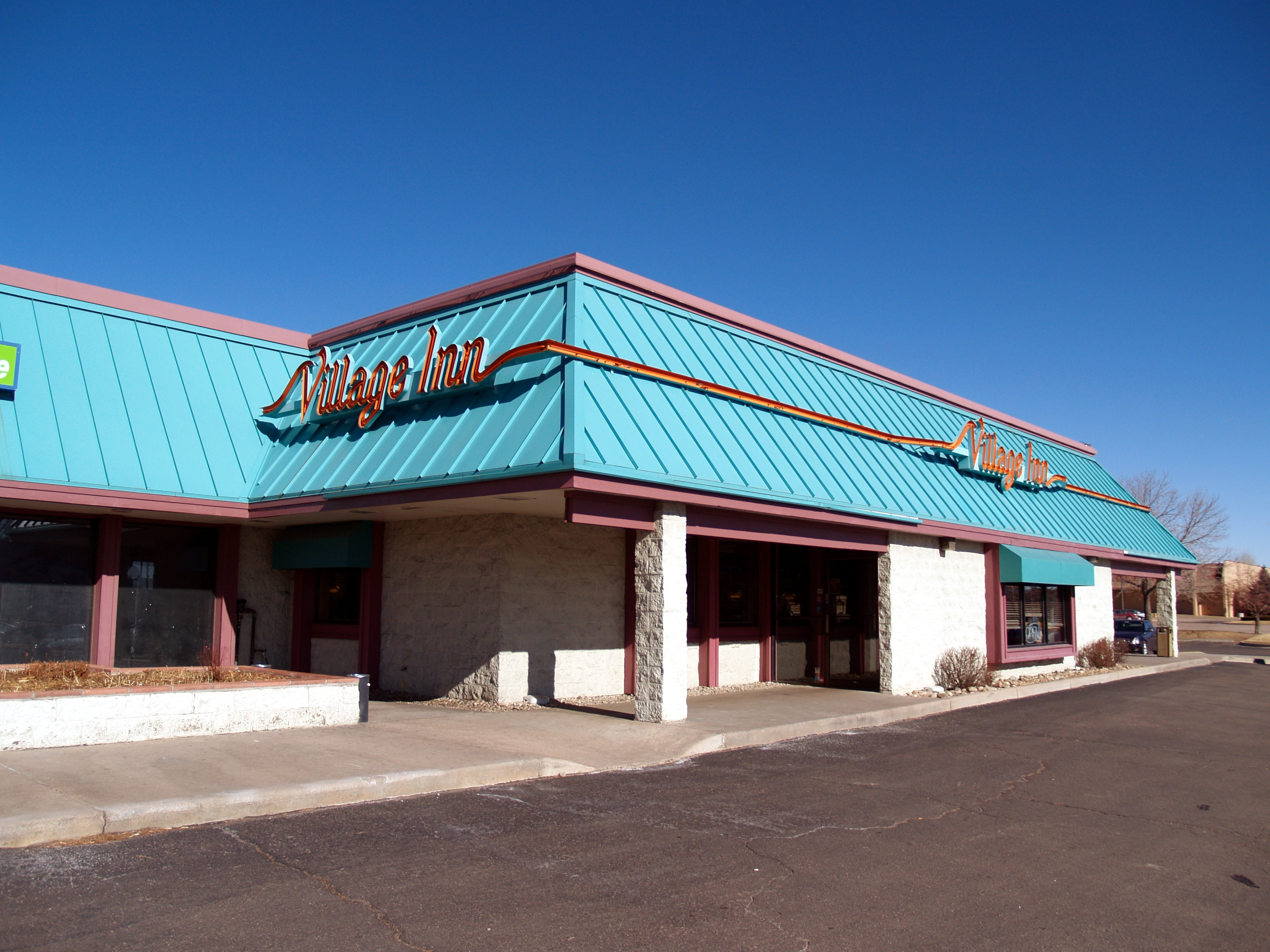 Village Inn restaurant in Colorado Springs.